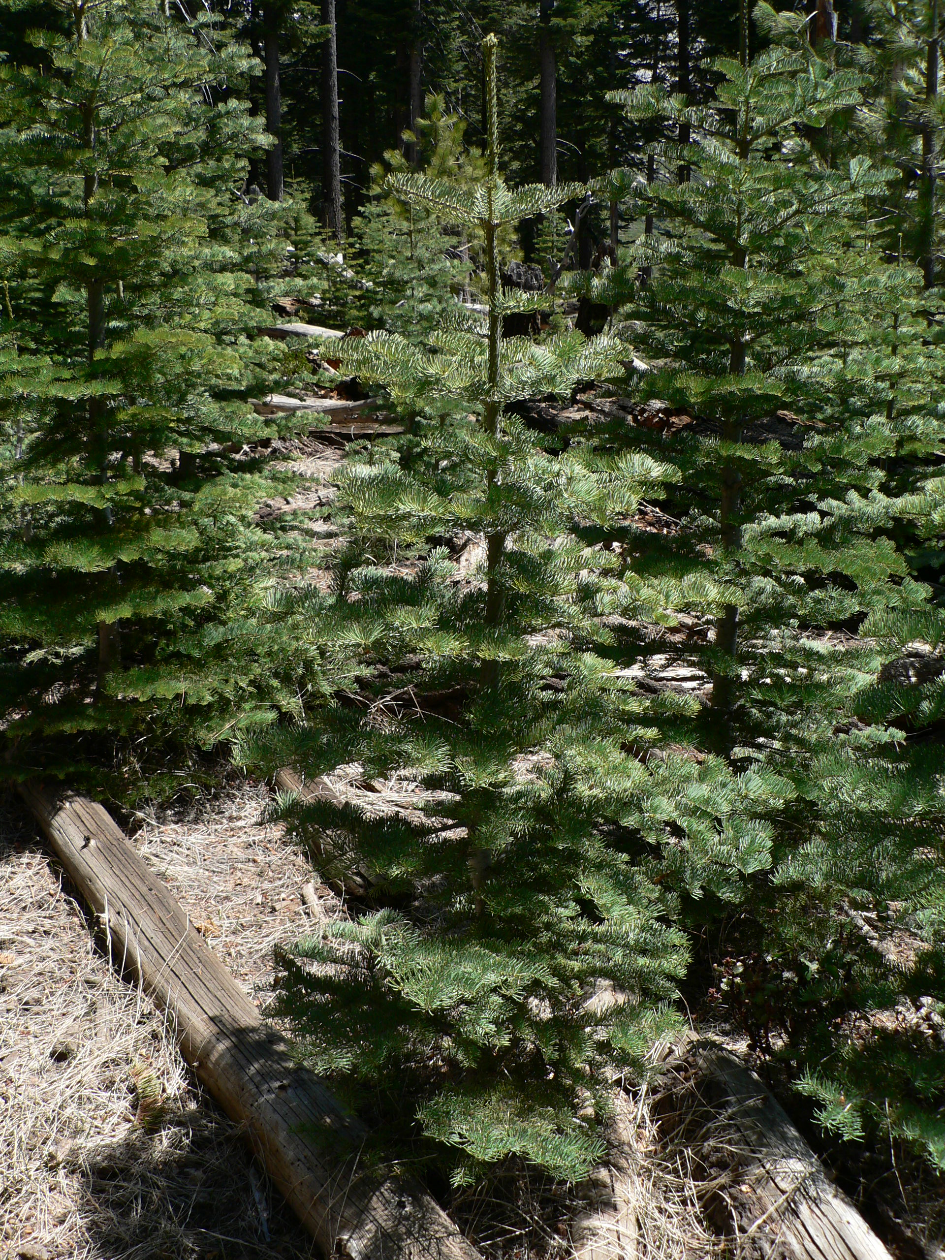 White Fir, about 2 meters tall